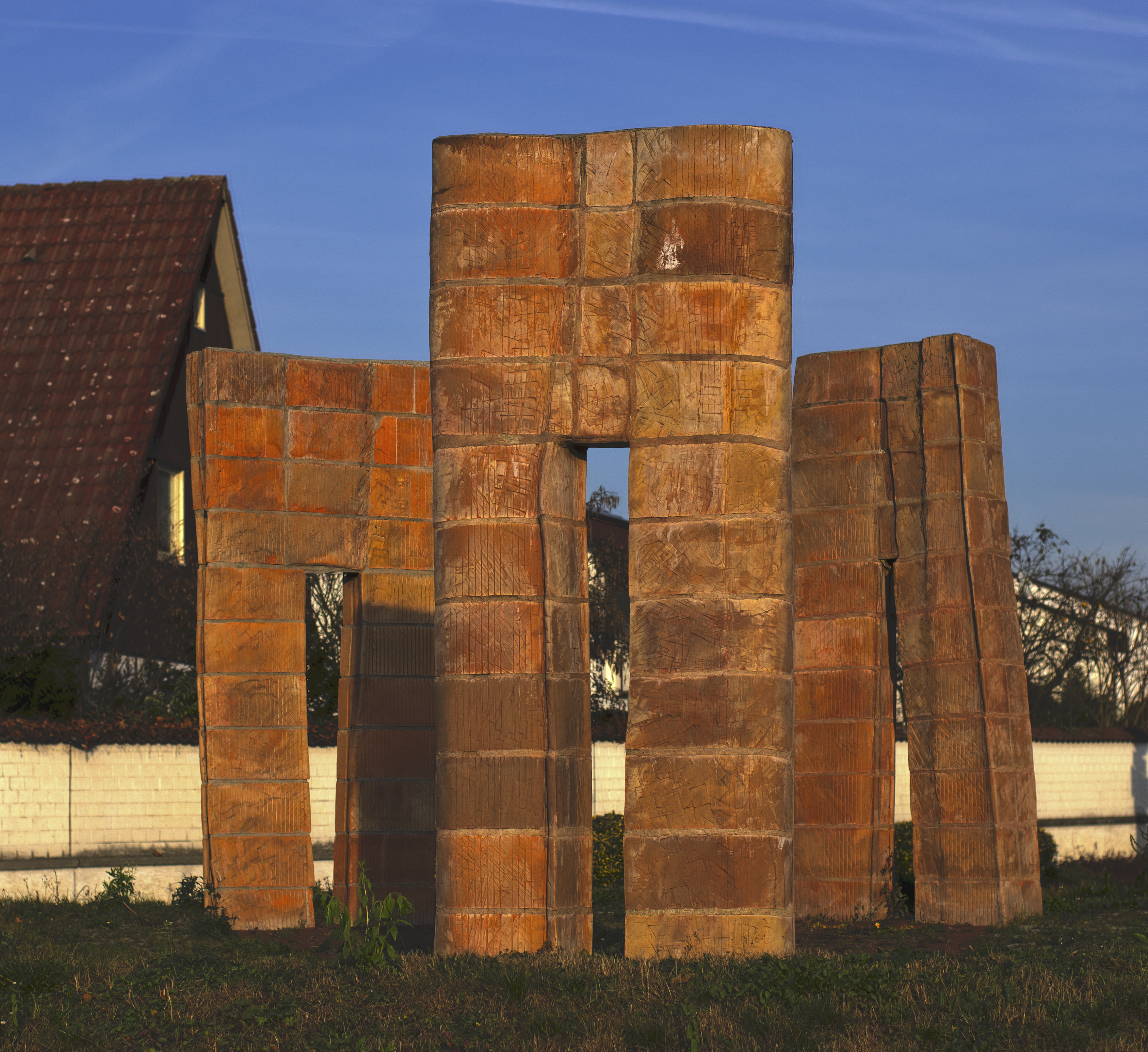 Drei Hohe Tore - Sigrid Siegele, Mörfelden-Walldorf, Hesse, Germany.